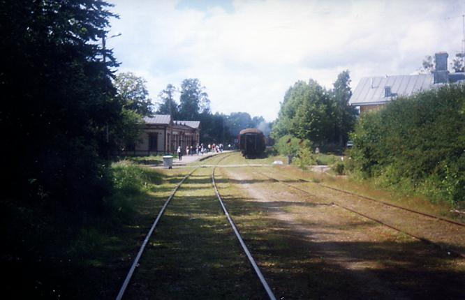 Porvoo Railway Station